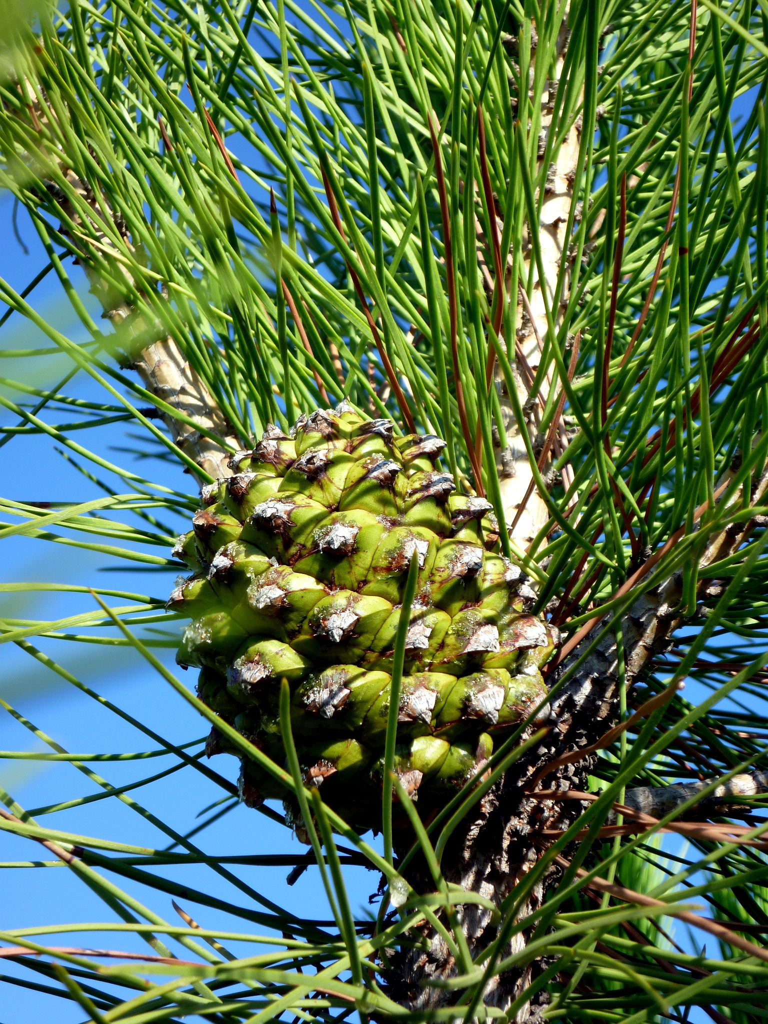 Pinus pinea. In Torà (Segarra-Catalunya). To 585 m. altitude